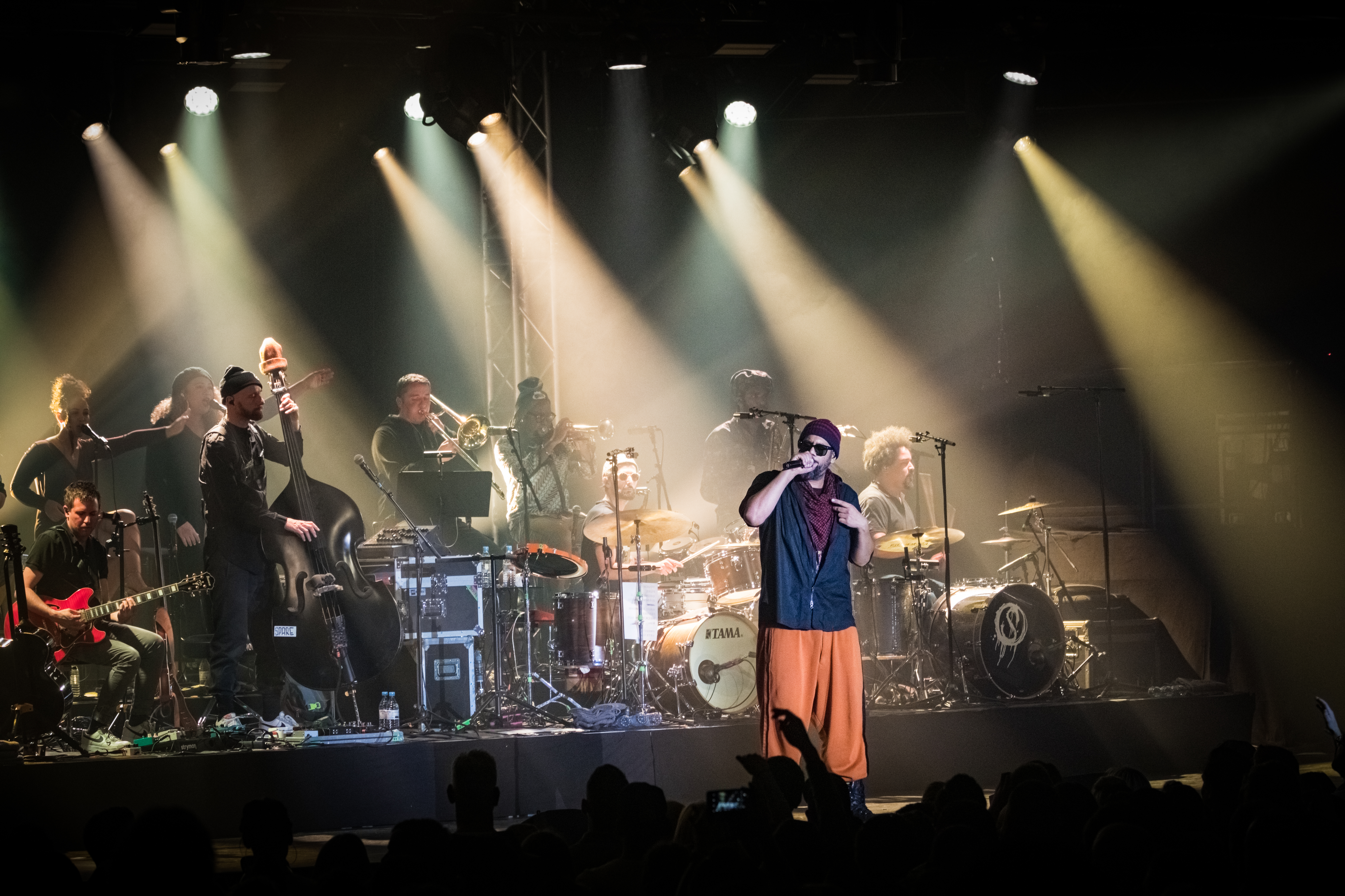 Samy Deluxe & the DLX Ensemble - Leverkusener Jazztage 2019